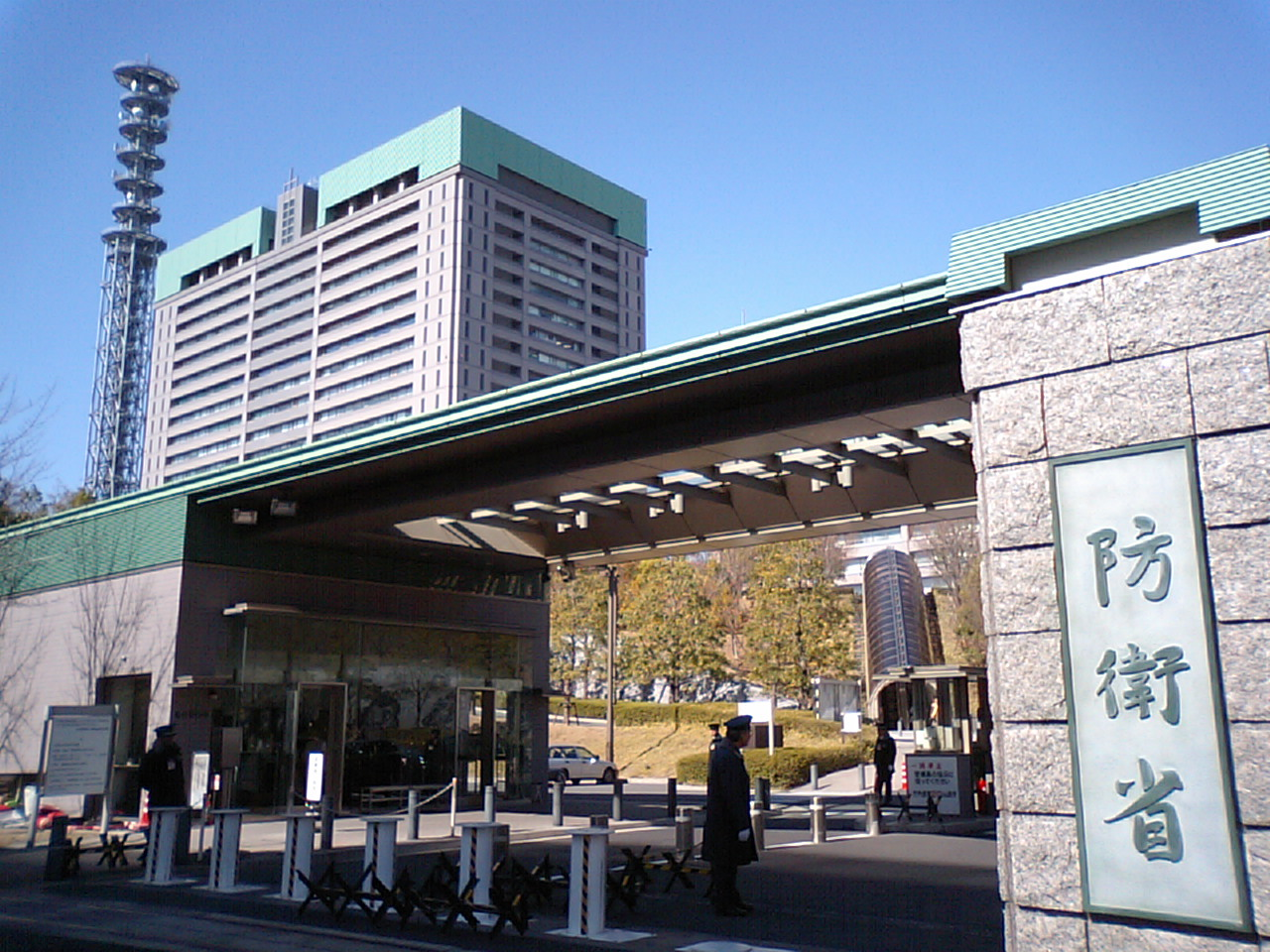 Ministry of Defense (Japan), main gate